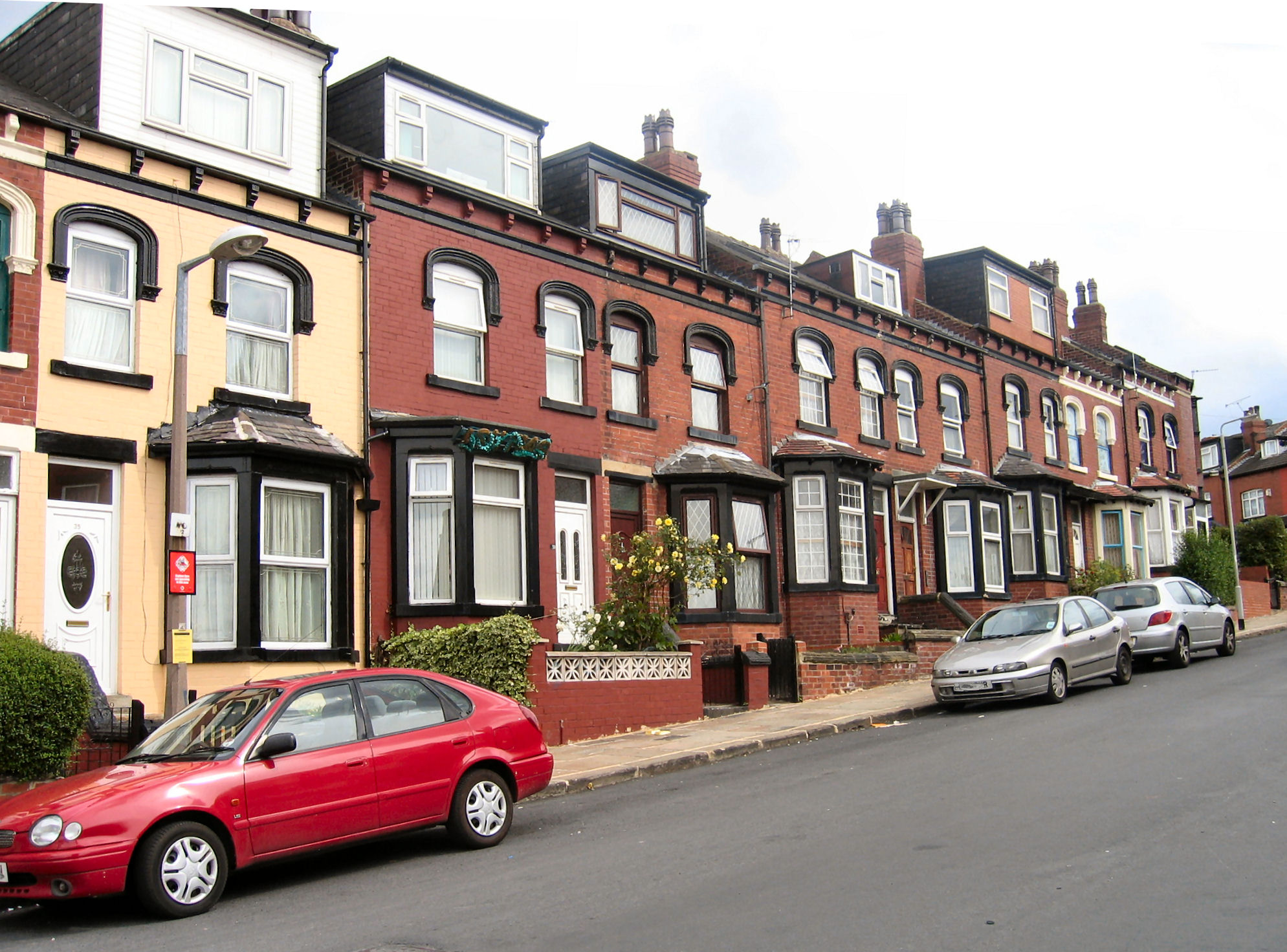 Terrace houses in Harehills, Leeds LS8, West Yorkshire